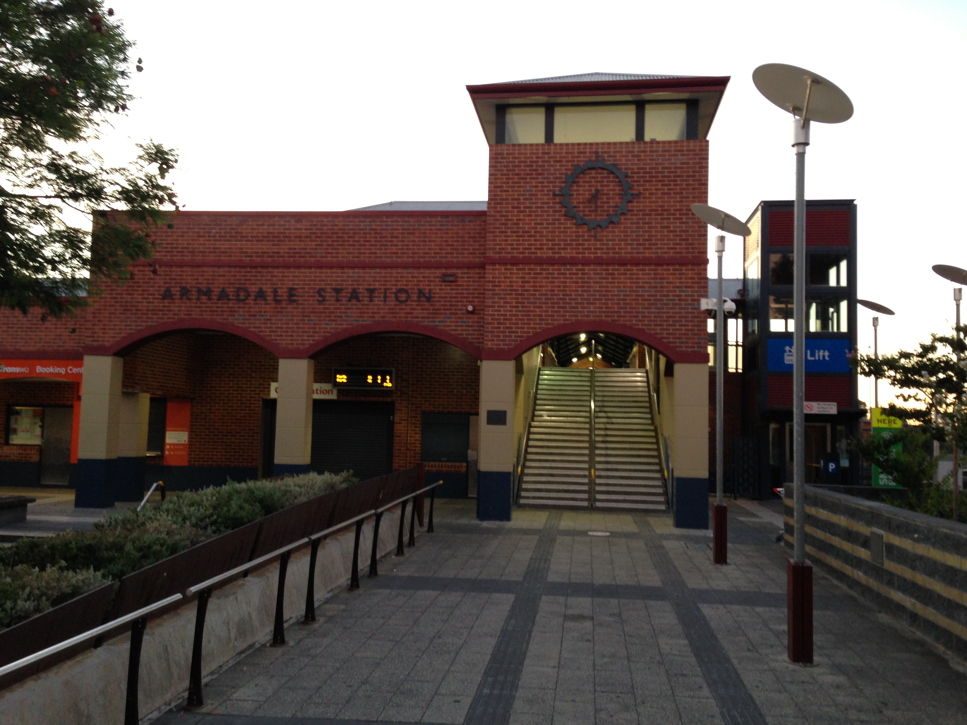 Armadale railway station (2015)